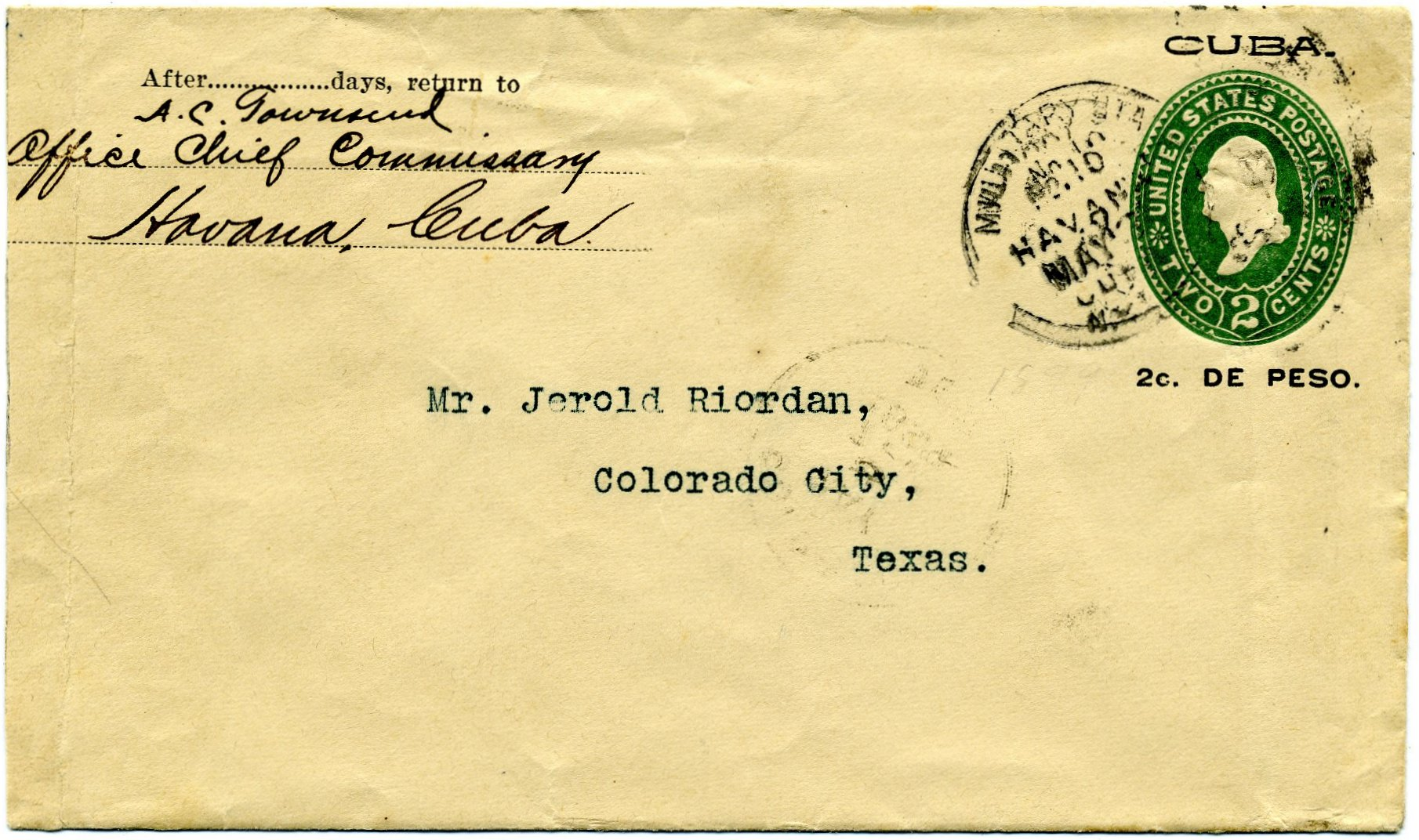 A "Partial Request" corner card on an 1899 postal stationery envelope printed in and by the US government for occupied Cuba